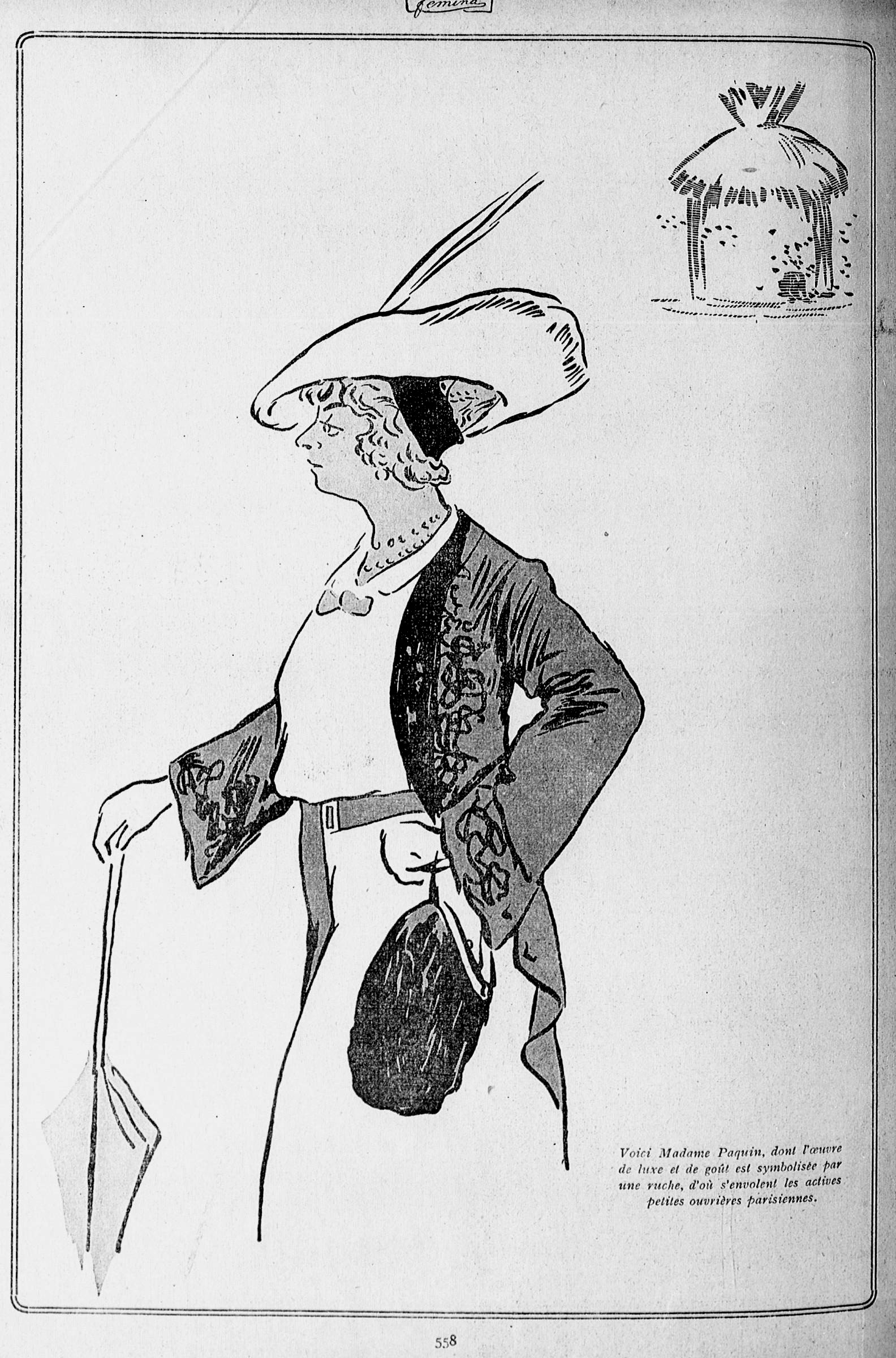 Caricature of Mme Paquin in "Femina", October 1910